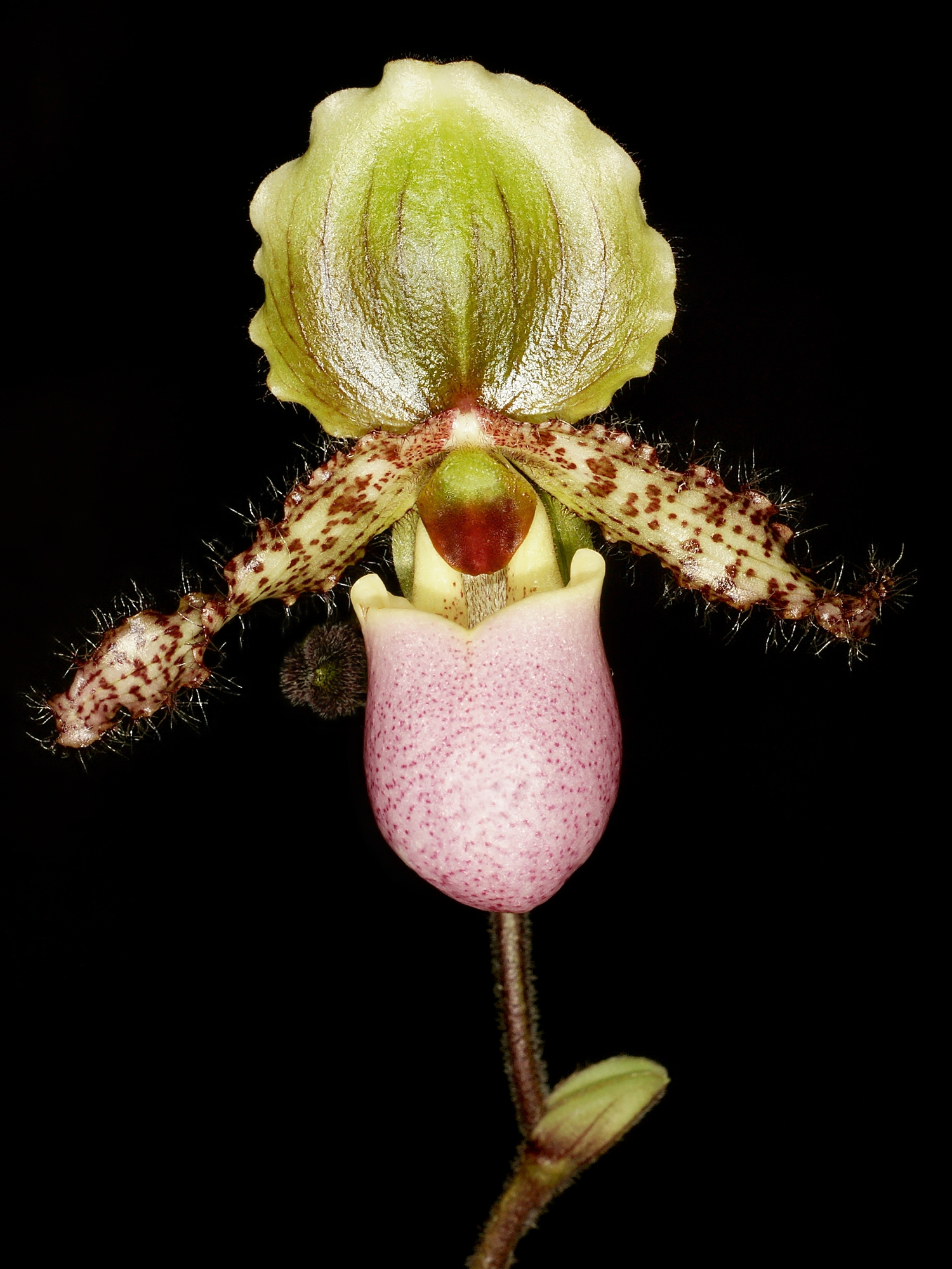 Paphiopedilum glaucophyllum